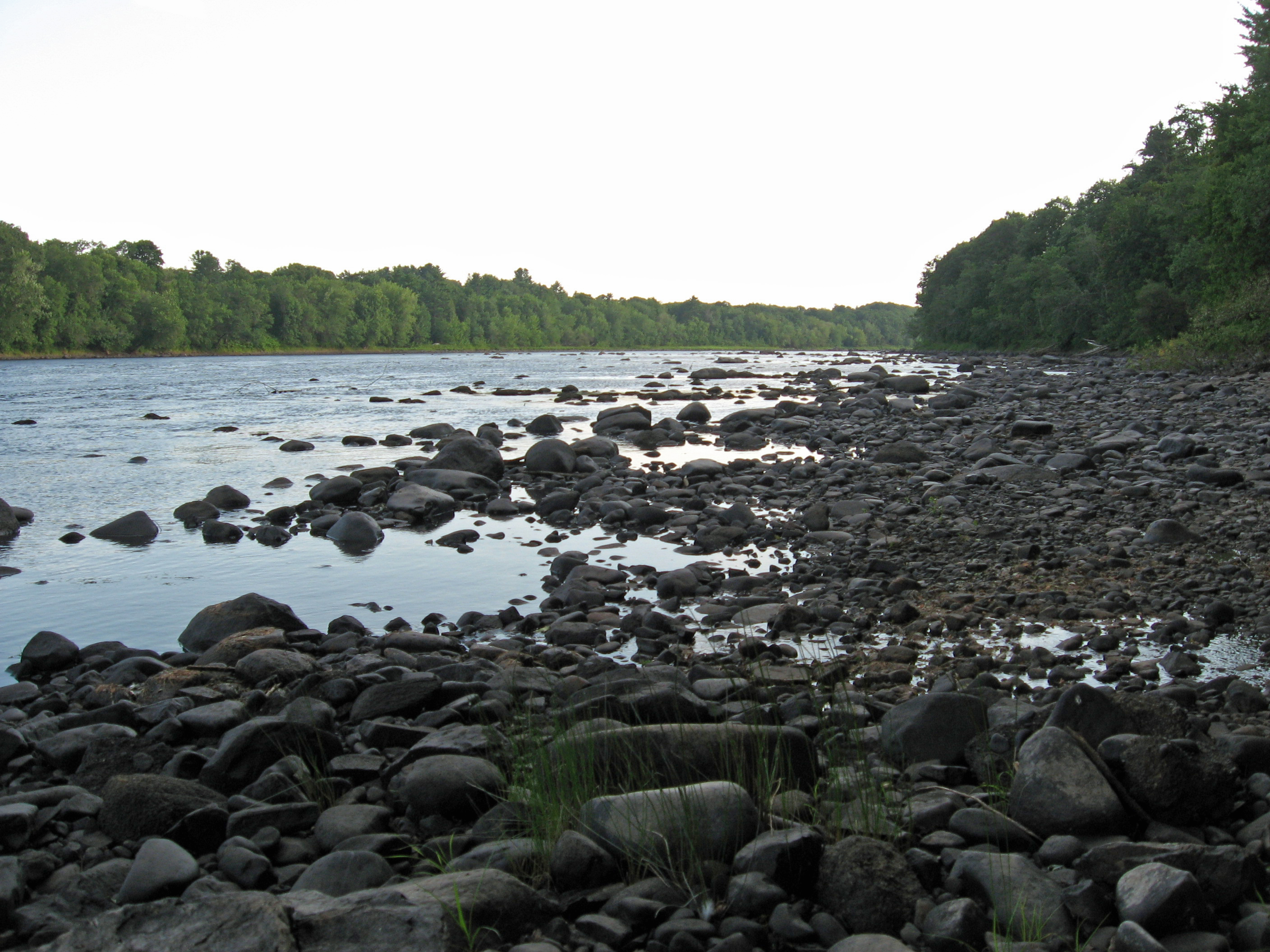 The Penobscot River from Marsh Island between Orono and Old Town, Maine